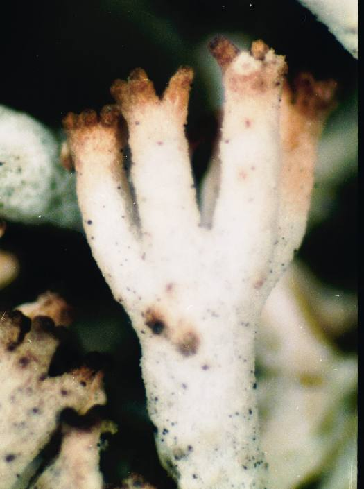 Cladonia rangiferina (L.) F.H. Wigg., 1780 (photograph of a herbarium specimen taken through a dissecting microscope (x40) showing tip of podetium) Growing on soil at summit of Spruce Knob, altitude 4,862 feet (near Circleville), Monongahela National Forest, Pendleton County, West Virginia, USA; collected by Dave Lee, identified by Arnold Norden (No. L-105, 9 Sep 1973); specimen is now in the Lichen Herbarium of the New York Botanical Garden.